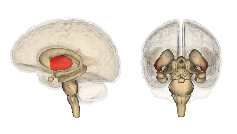 Putamen. Images are from Anatomography maintained by Life Science Databases(LSDB).